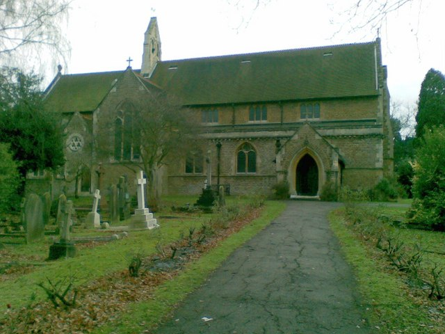 St Mary's Church, Long Ditton This current church building was designed in the nineteenth century by George Edmund Street, although there has been a church here since Anglo-Saxon times.